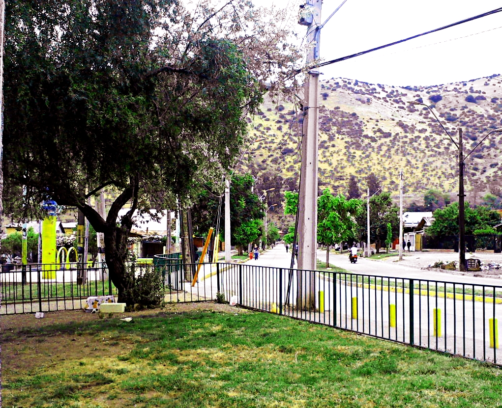 village chilean of villa wolf